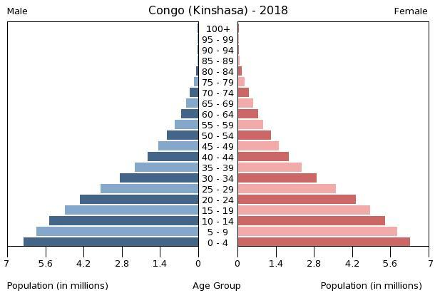 A population pyramid illustrates the age and sex structure of a country's population and may provide insights about political and social stability, as well as economic development. The population is distributed along the horizontal axis, with males shown on the left and females on the right. The male and female populations are broken down into 5-year age groups represented as horizontal bars along the vertical axis, with the youngest age groups at the bottom and the oldest at the top. The shape of the population pyramid gradually evolves over time based on fertility, mortality, and international migration trends.